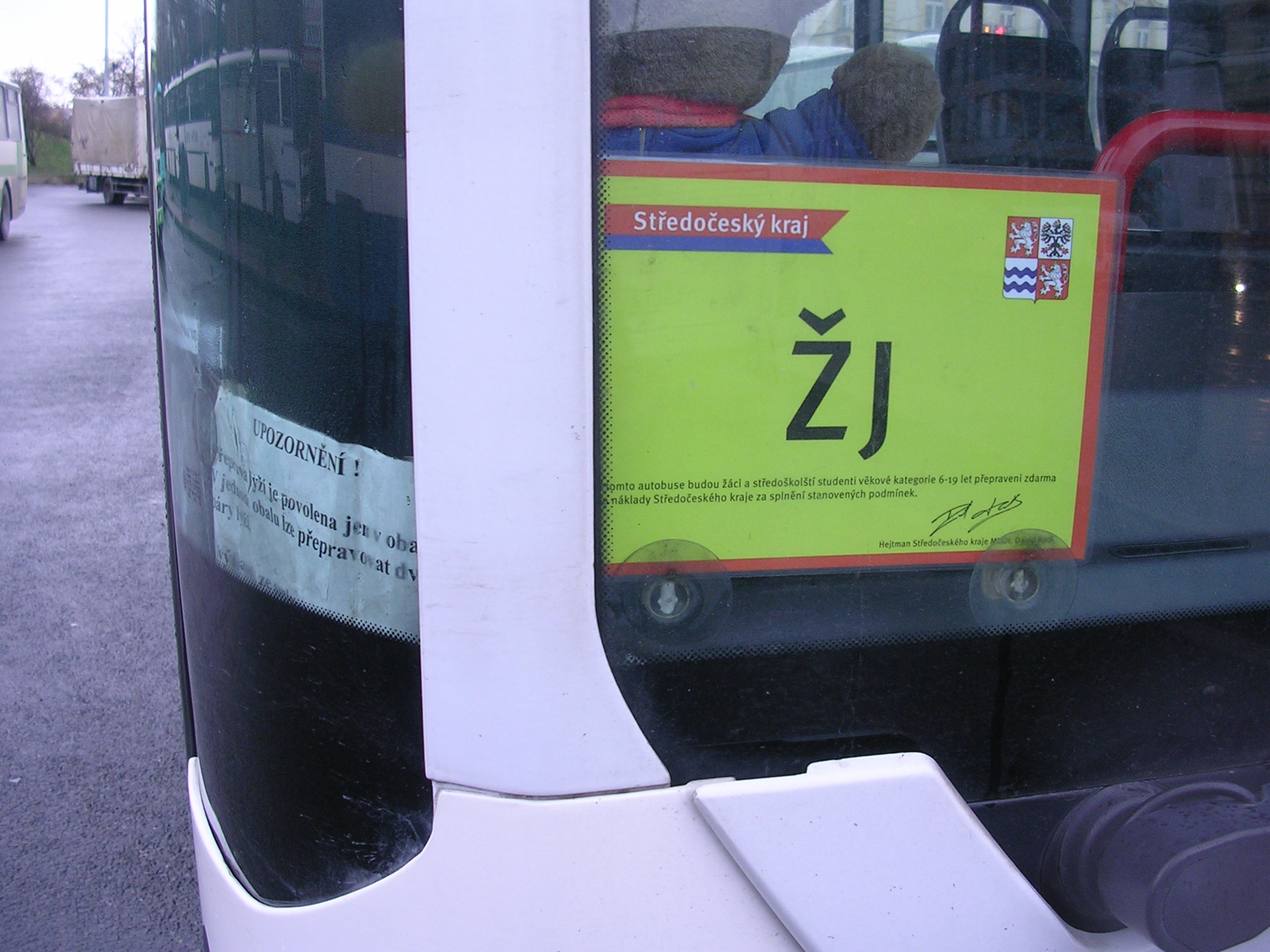 Prague, Smíchov, the Czech Republic. A sign of free transportation of scholars.